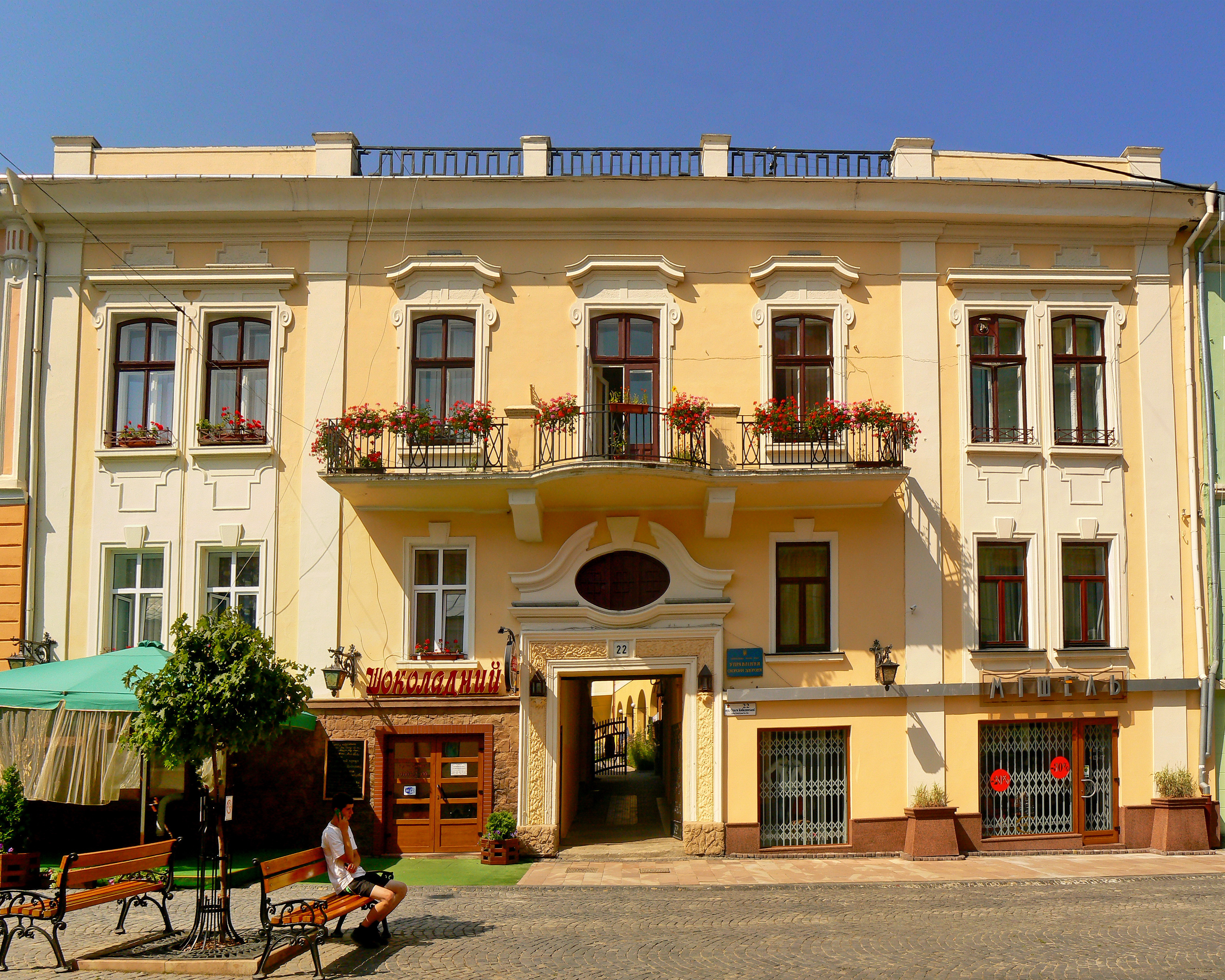 Кобилянської, 22